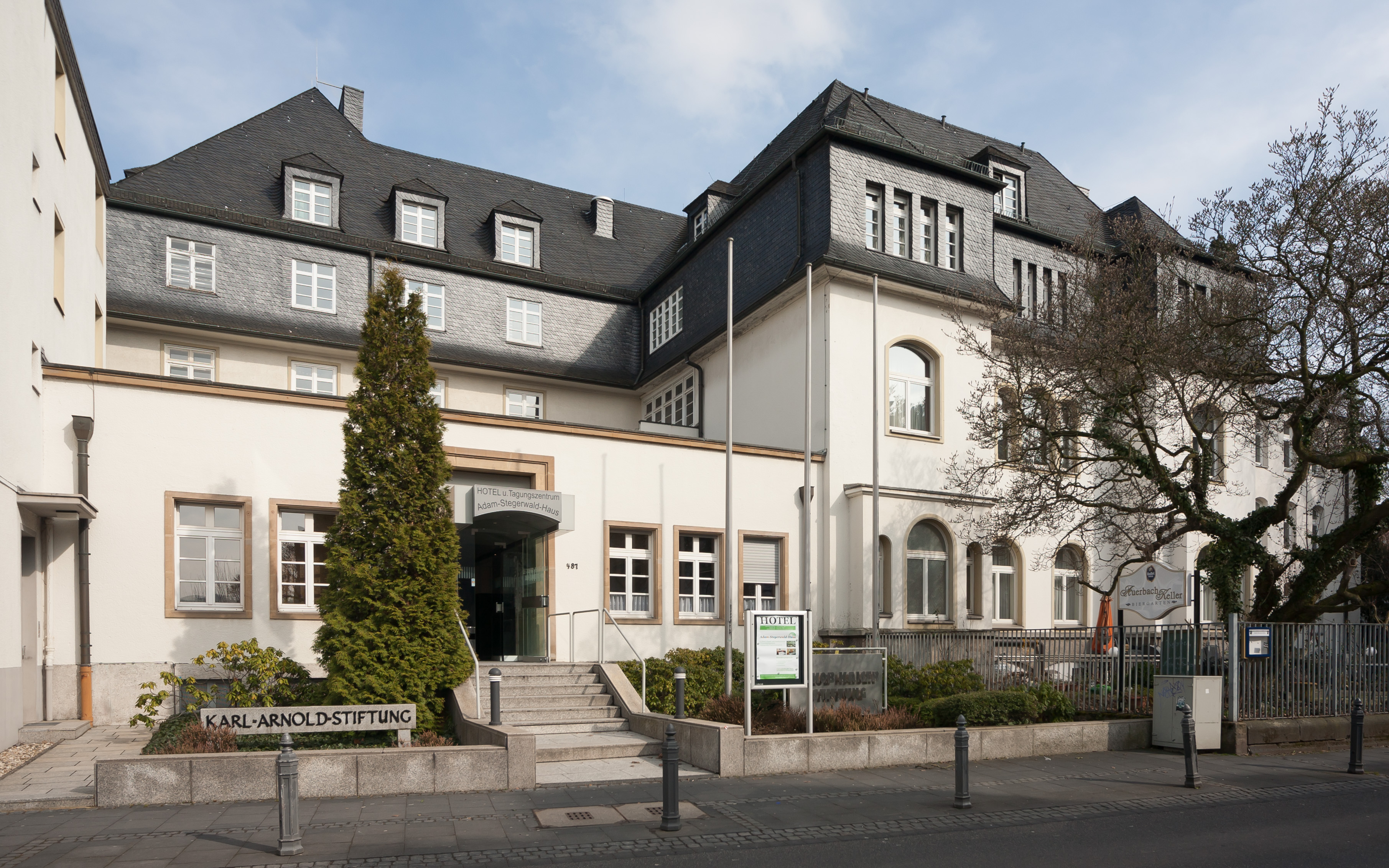 Heritage protected building Adam-Stegerwald-Haus, Königswinter